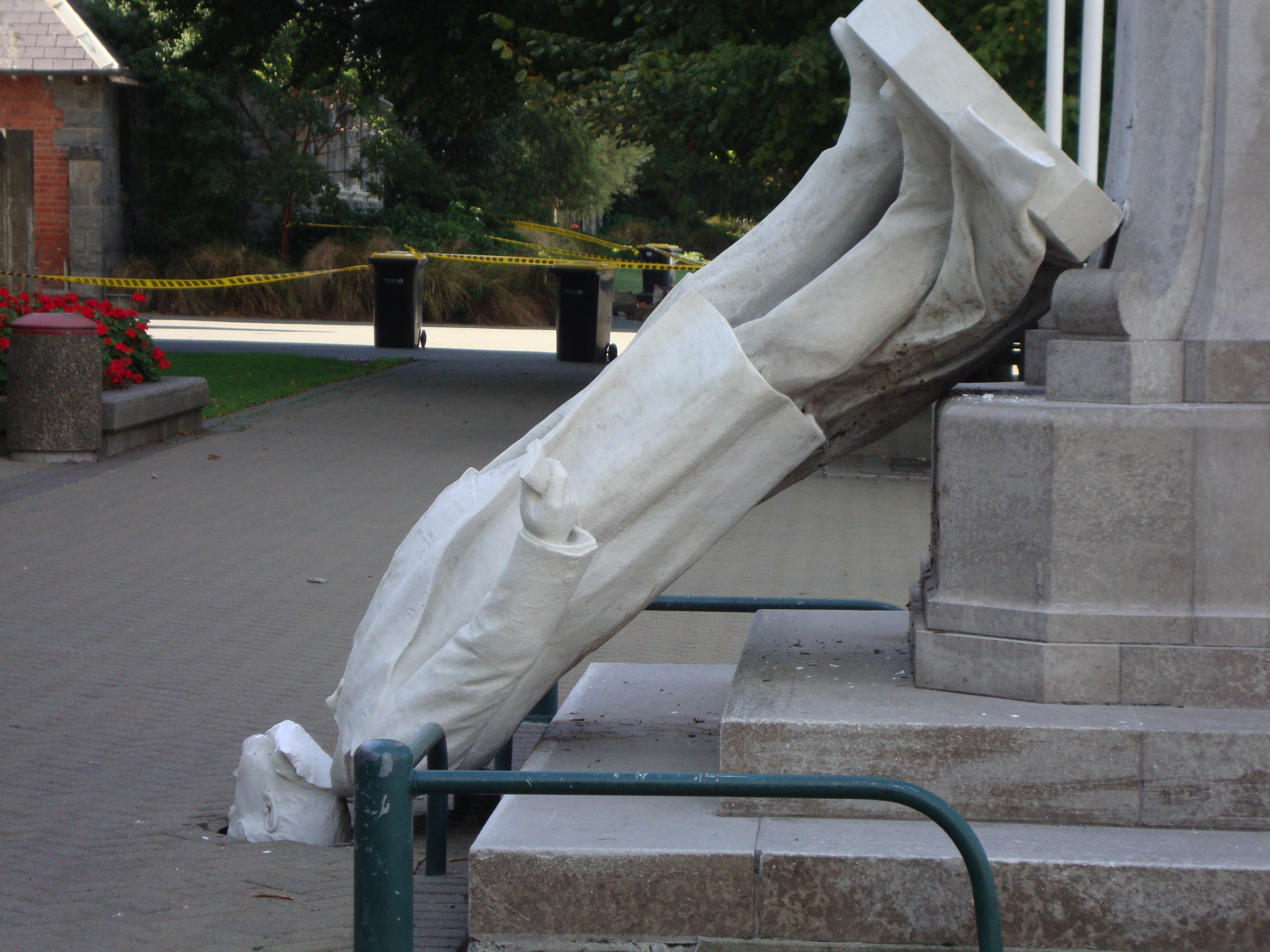 Rolleston Statue toppled off its plinth due to the 22 February 2011 earthquake, with the head broken off.